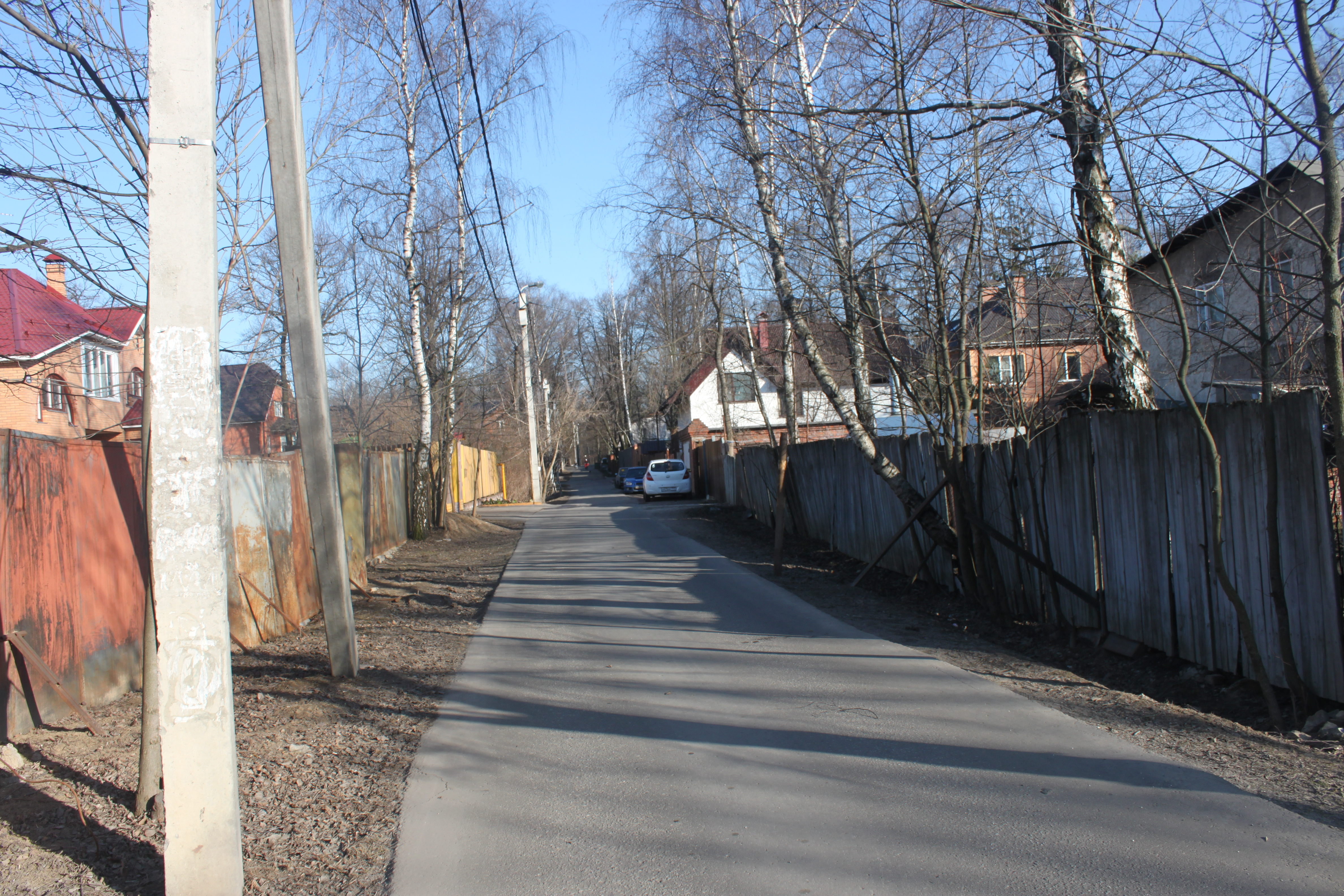 Street Baydukova (Moscow).